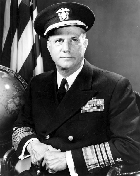 Admiral Jerauld Wright, USN